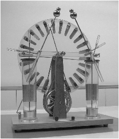 Wimshurst electrostatic machine References: Photos libres et Cours de physique libre